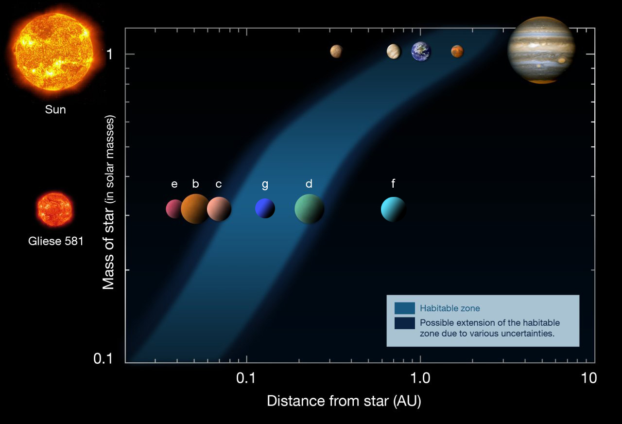 Planetary habitable zones of the Solar System and the Gliese 581 system compared; updated with the 2010 discovery of f and g